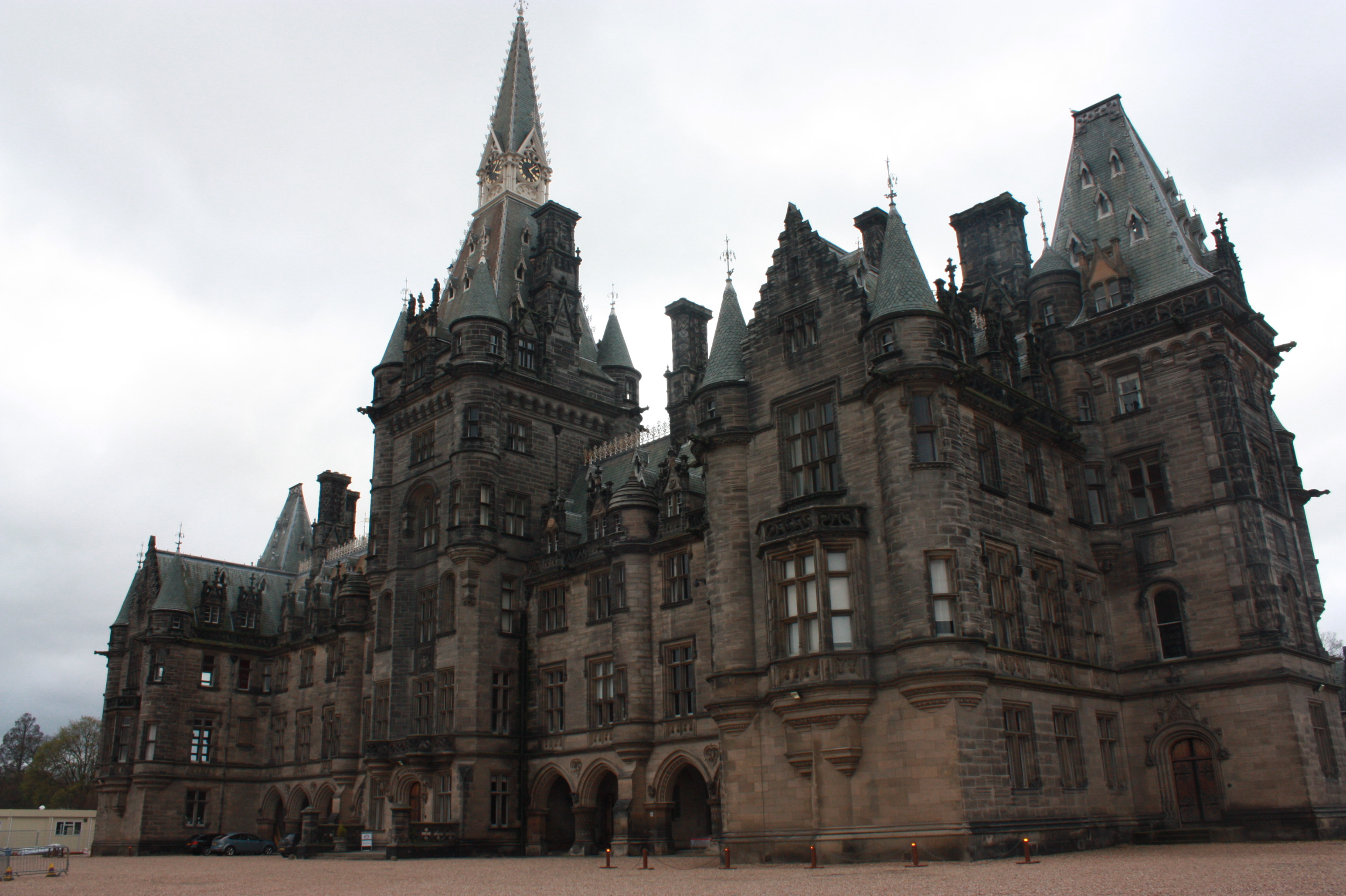 Fettes College from the south-east